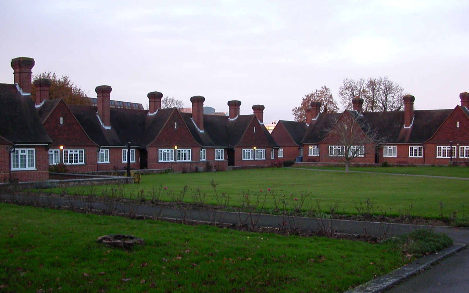 Dyers' Almshouses, Northgate, Borough of Crawley, West Sussex, England. One of the borough's locally listed buildings.